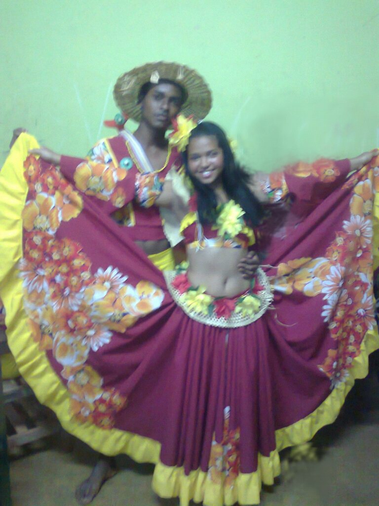 Dancers Carimbó